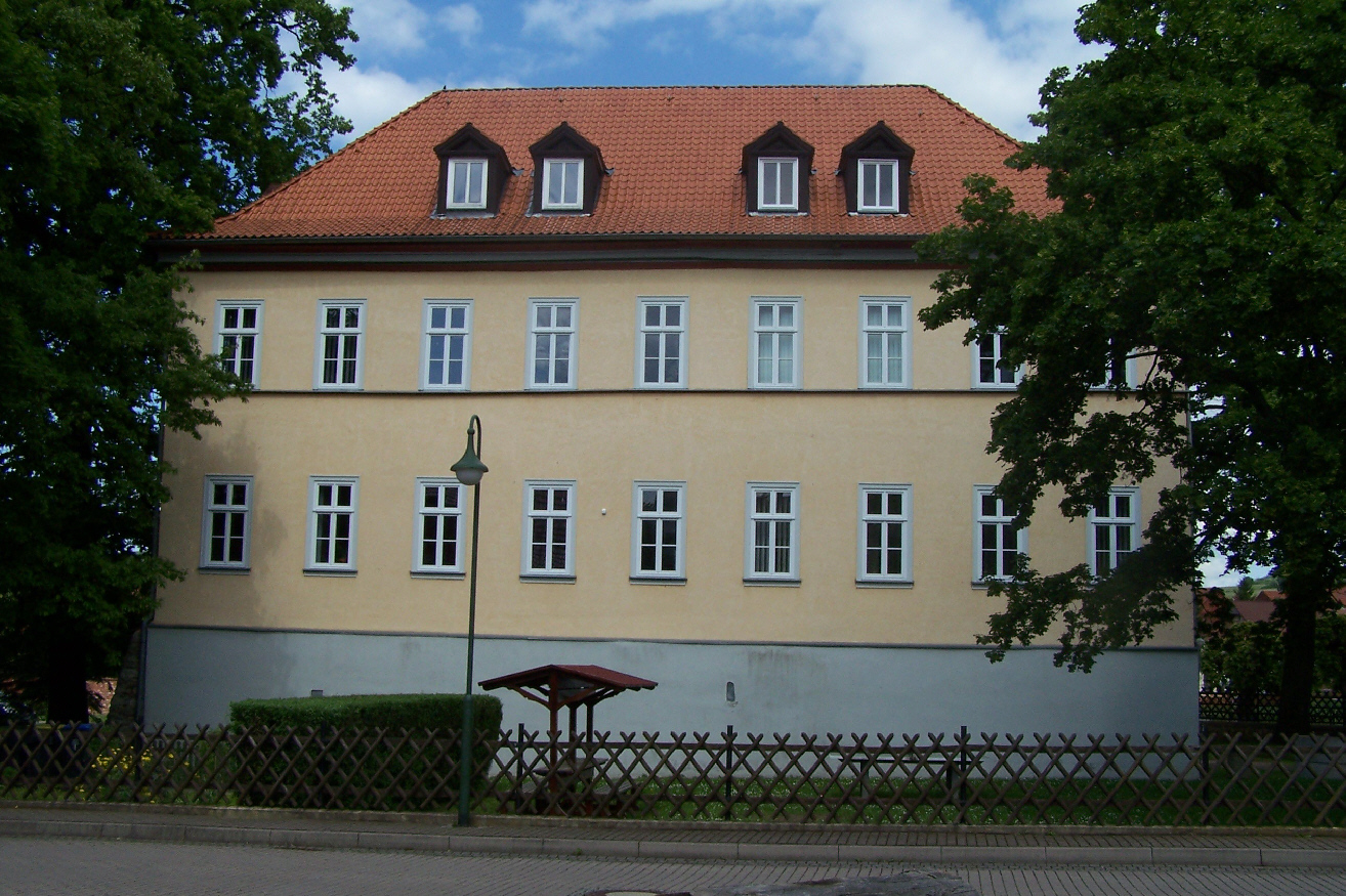 The backside of the castle in Berka vor dem Hainich.